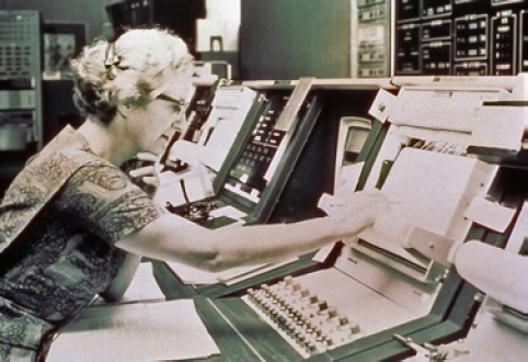 Nancy Roman at the control console for the OAO-3 satellite.